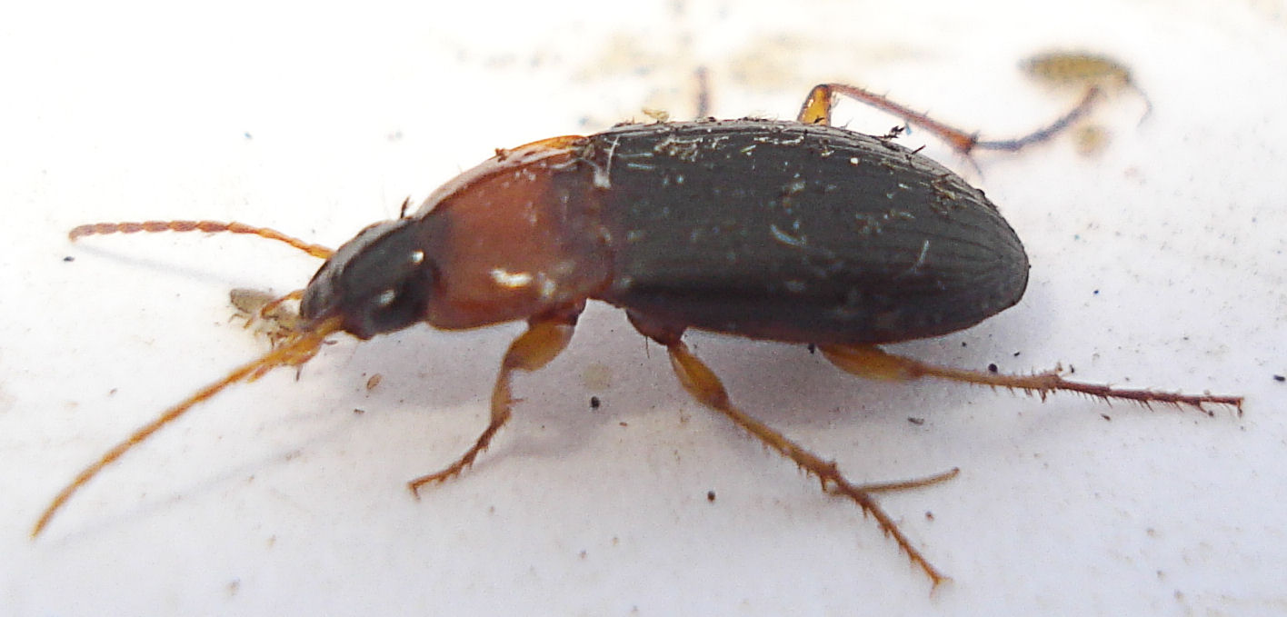 Order: Coleoptera Date: February 27, 2009 Recorder: Mick E. Talbot Determiner: Mick E. Talbot Species: Byturus sp. Gender: Abundant: 1 Habitat: Host Plant: Location: Lincoln, LN6, VC53 Grid Reference: SK Comment: Recorders, or for anybody who wants to check the GR please copy it then click on it. You will be taken to the "Grid Reference Plotter", once there paste the copied grid reference into the search box, then click the search icon, and your there.